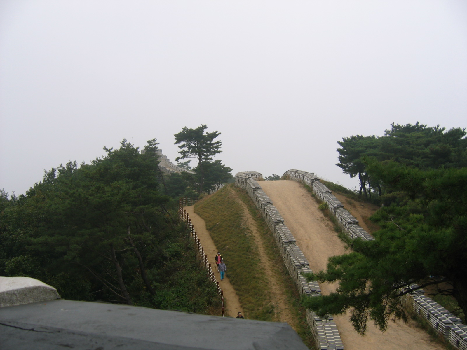 Wong-Sung of Namhan_Moutain_Castle